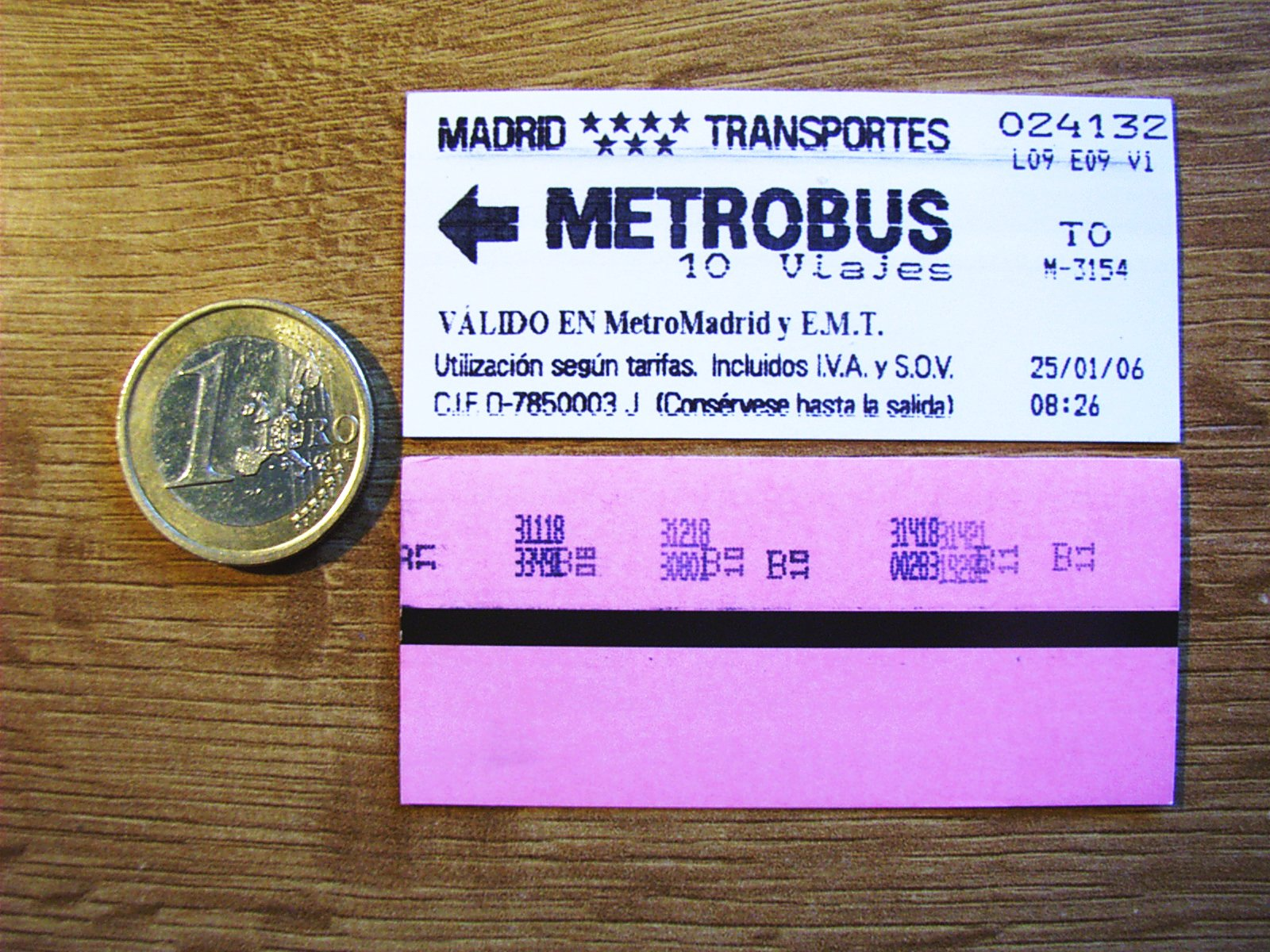 A Metrobus ticket. Used in Madrid's public transport (subway and bus).